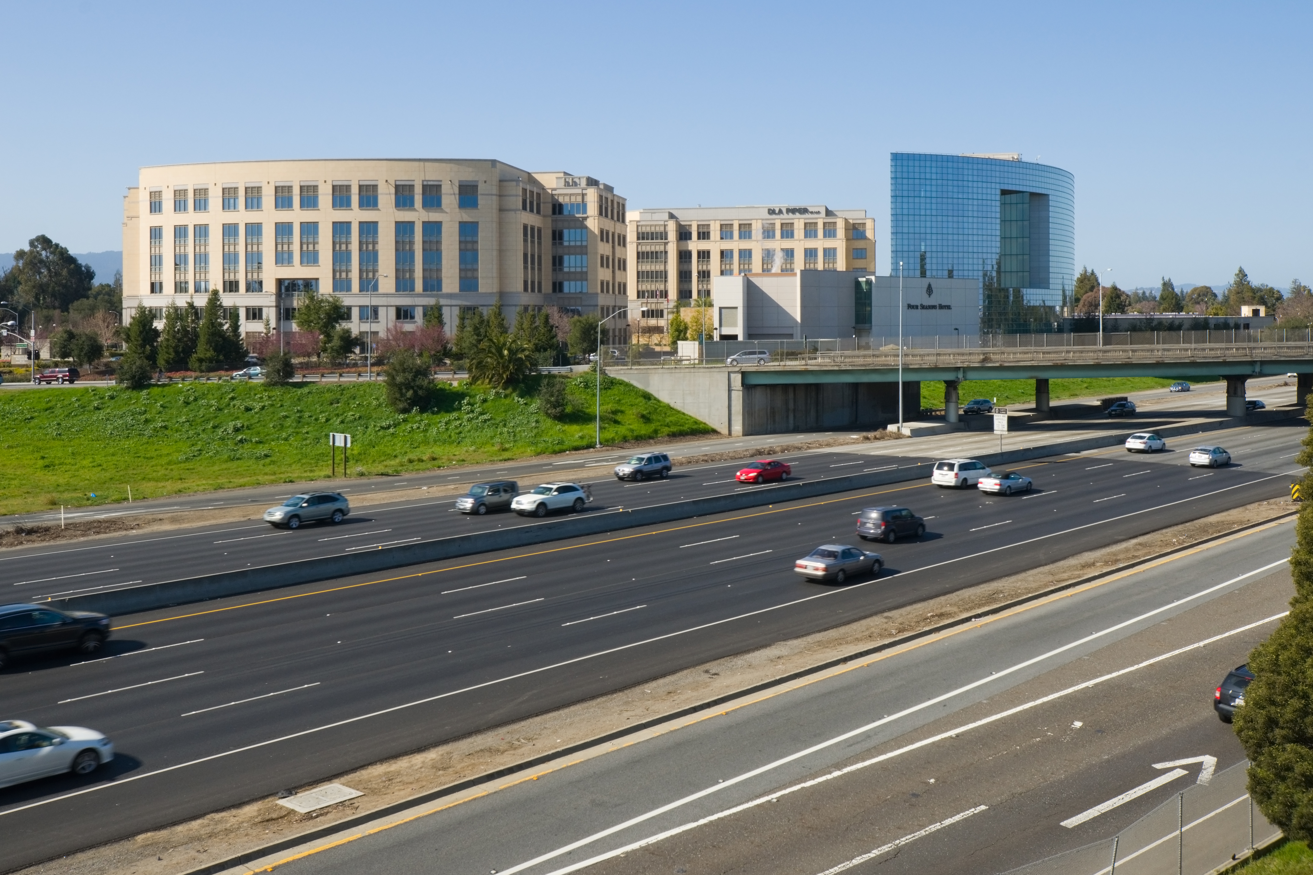 University Circle in East Palo Alto, California